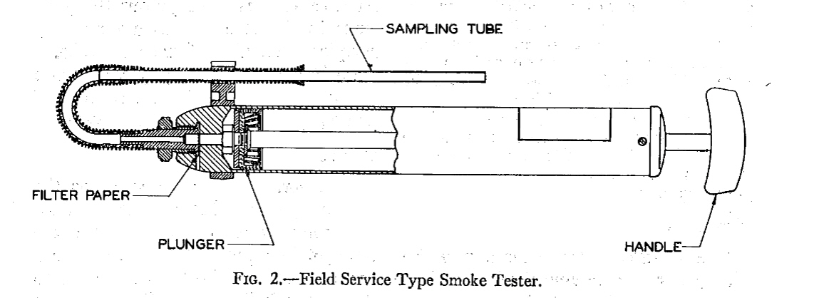 Diagram of an ASTM D2156 Smoke Spot Pump, from the 1963 ASTM published Standard.